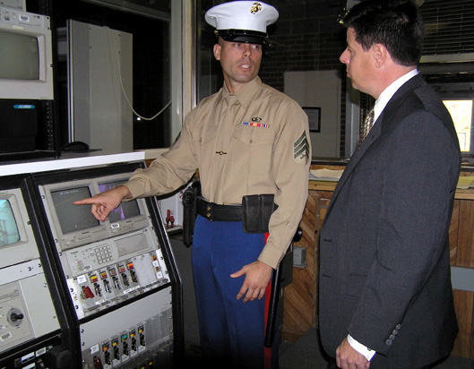 A Marine Security Guard reviews the embassy's security alarm system with the regional security officer. Text from [1]